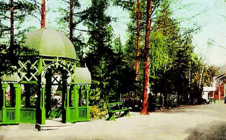 Intendantskiy garden